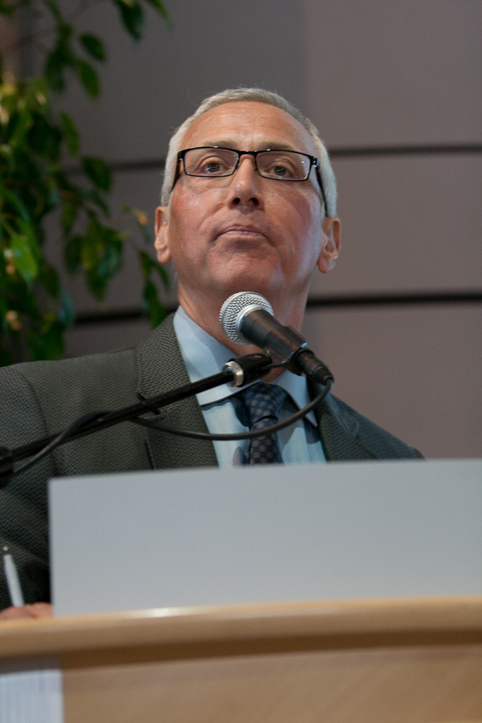 (CC) Randy Stewart, . Feel free to use this picture. Please credit as shown. If you are a person that I have taken a photo of, it's yours (but I'd still be curious as to where it is).